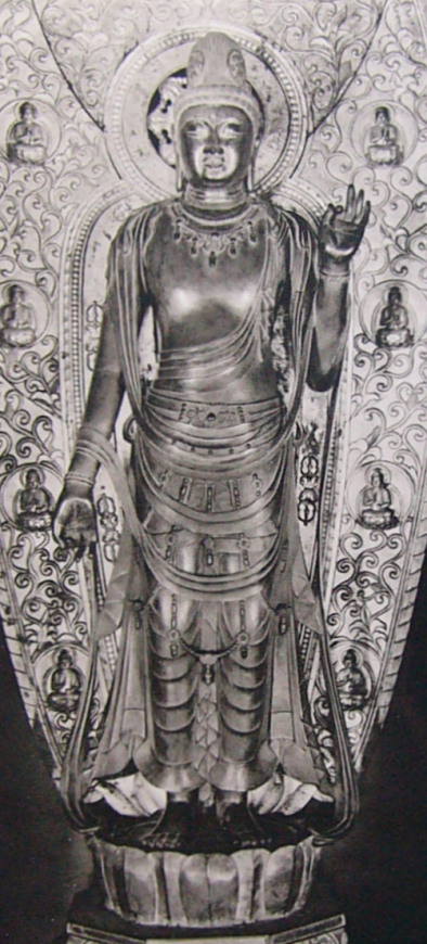 Kannon(Avalokitesvara) , Bronze gilt(most worn out), early ACE 8th centuiry, total height 189cm, Broze gilt, Yakushiji, Toindo, Nara, Japan